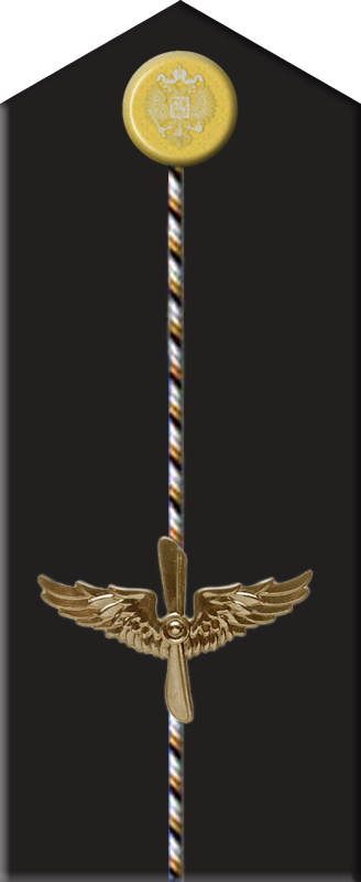 Rank insignia of the Imperial Russian Navy until 1917.